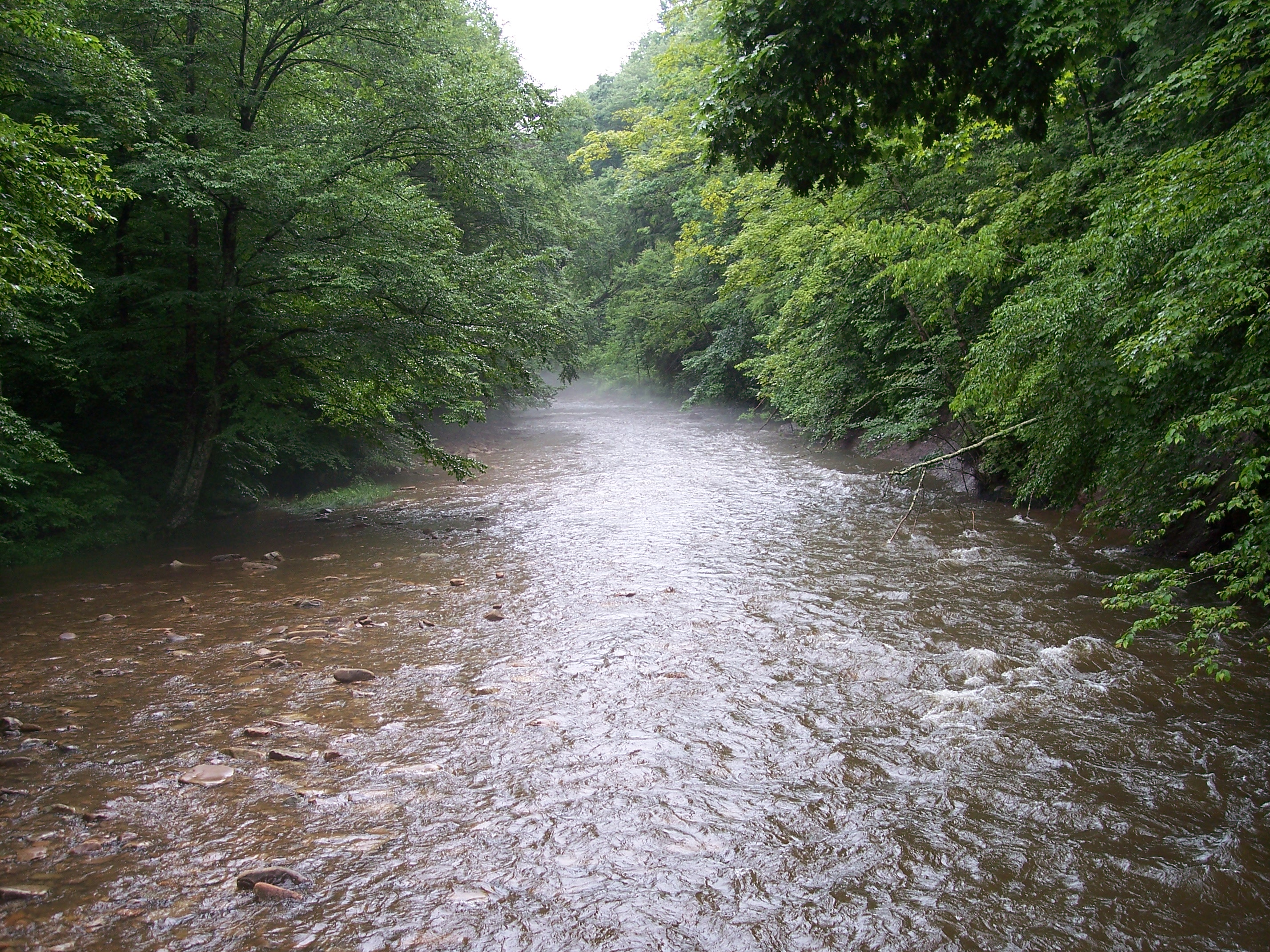 Fog and high water on the North Fork of the Cherry River at the North Bend Picnic Area in the Monongahela National Forest — in Greenbrier County, West Virginia.